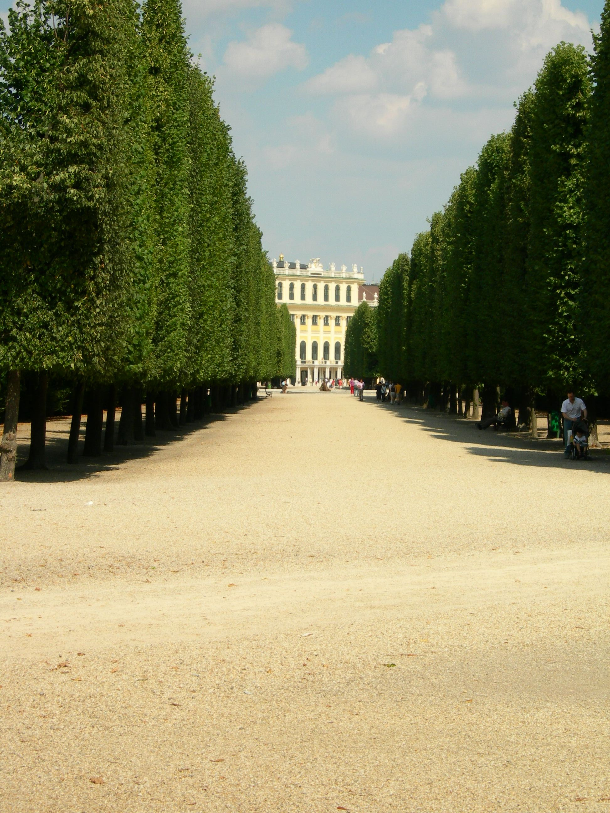 Austria, Vienna, Schönbrunn Palace